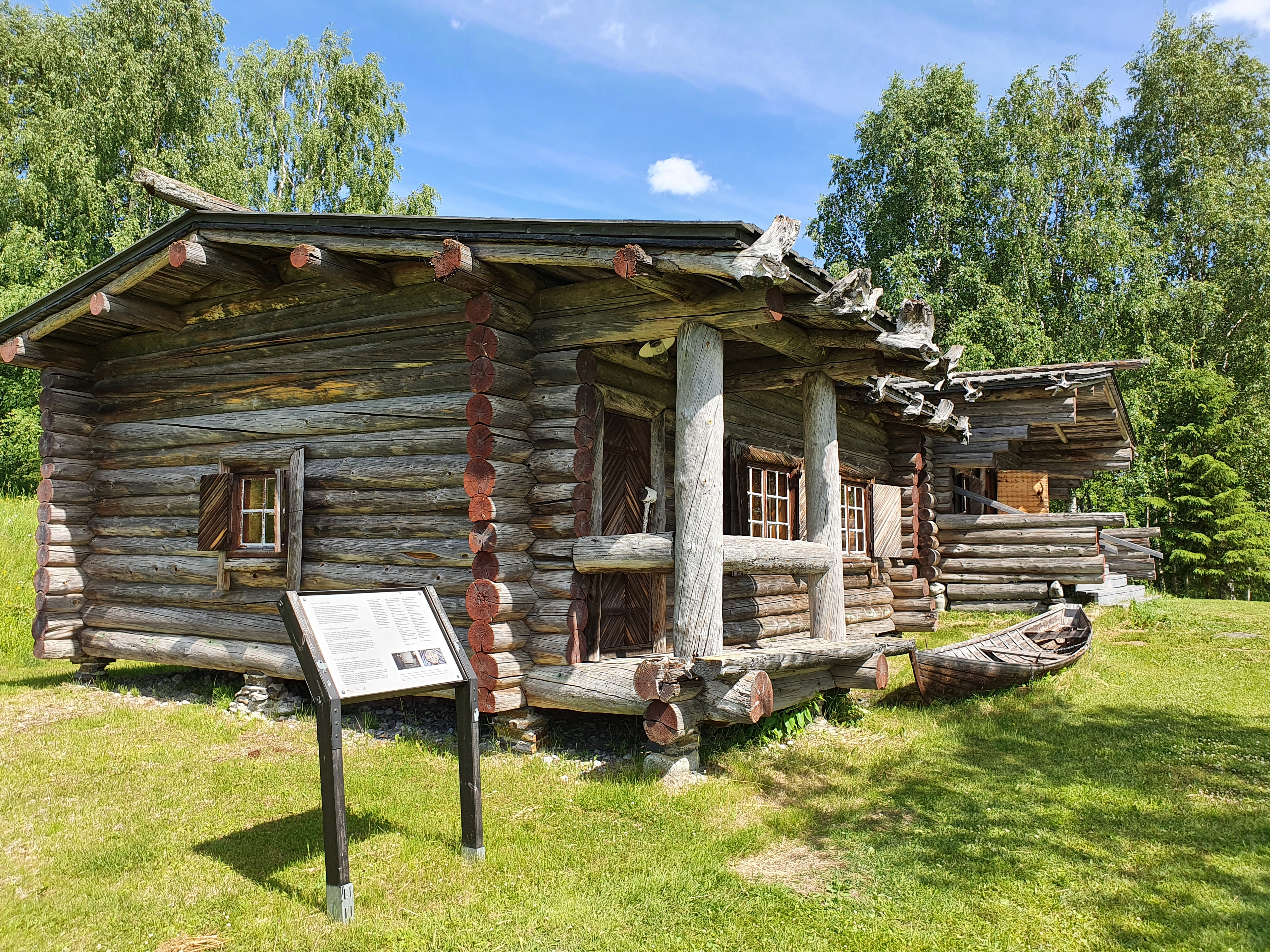 The hut used during the war by general Erkki Raappana, now located in Parppeinvaara, Ilomantsi, Finland.